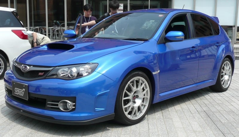 Subaru Impreza WRX STI shown in WR Blue Mica.